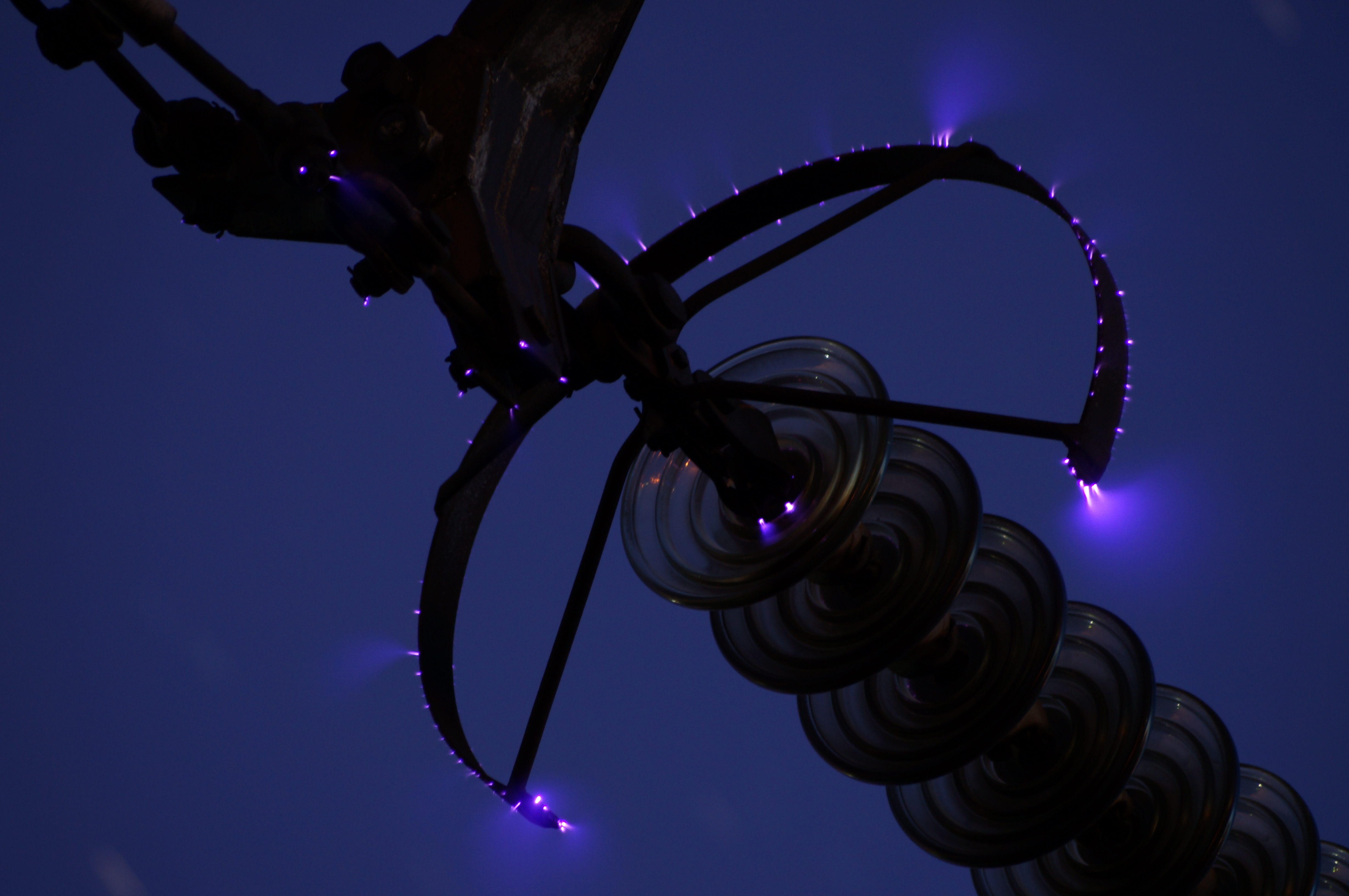 Corona discharge on corona ring of 500 kV overhead power line. The picture was taken at night by the Sony SLT-A37 camera on tripod, Sony DT 55-200/4-5.6 SAM lens @ 200mm/5.6, 90 seconds exposure via shutter release timer/intervalometer, ISO 200. Actually corona discharge looks a little weaker to the naked eye, but long exposure of camera does the job.